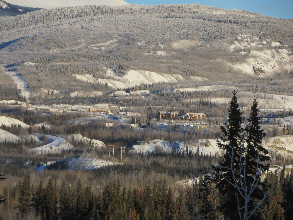 The town of Faro, Yukon sits on terraces above the Pelly River. Faro is quiet these days with a population of 300 after the largest open pit lead-zinc mine in the world closed in 1998.